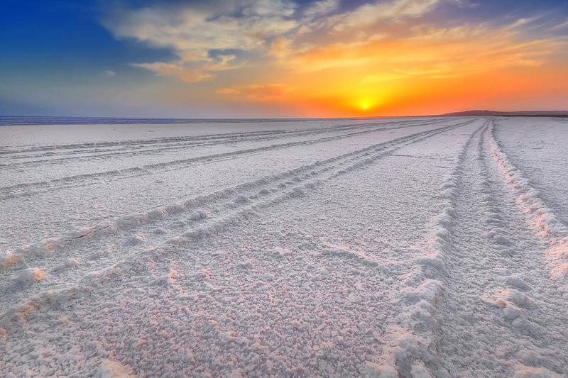 The White Rann of Kutch is a large area of Salt Marshes located in Kutch district. It is divided into two main parts: Great Rann of Kutch and Little Rann of Kutch. The Rann of Kutch is located in the Thar Desert bio-geographic area in the Indian state of Gujarat with some parts in Pakistani province of Sindh. It is a seasonally marshy region, the word Rann meaning "salt marsh", alternating with medaks, elevated pieces of land where vegetation grows.